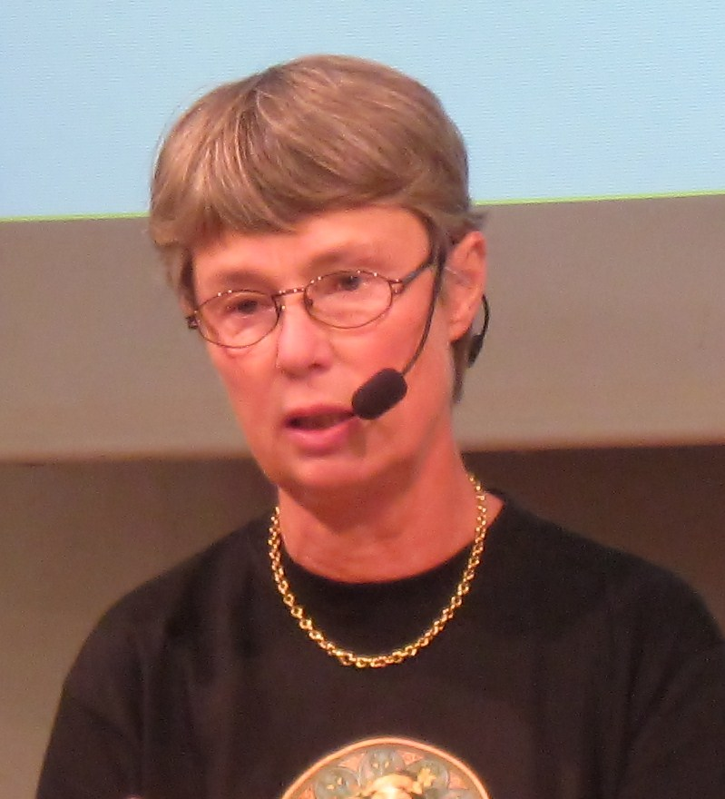 Swedish philosopher of religion and university professor, Catharina Stenqvist.